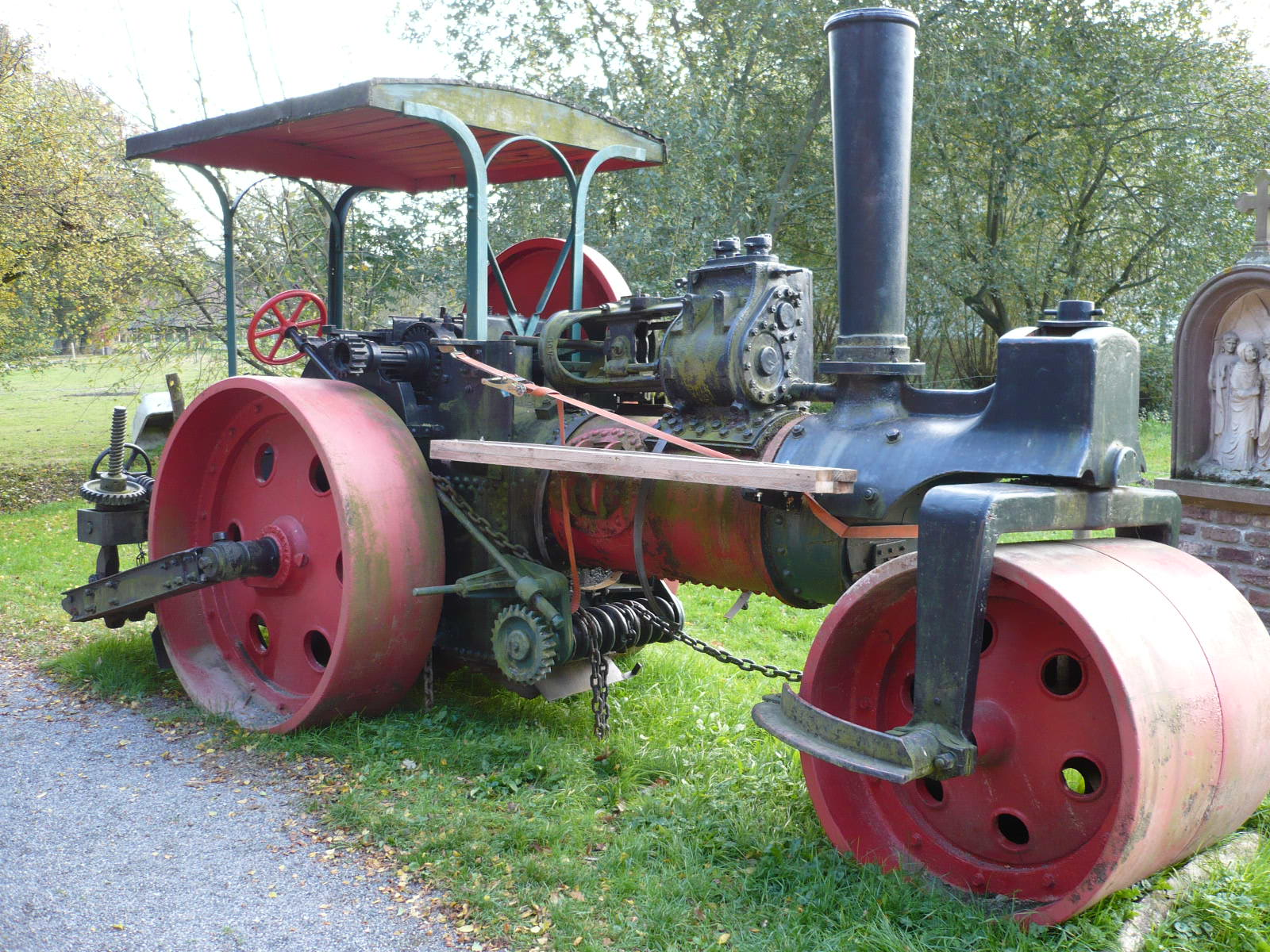 Steam roller built by company B. Ruthemeyer, Soest, Germany, located in the Outdoor Museum Dorenburg Grefrath